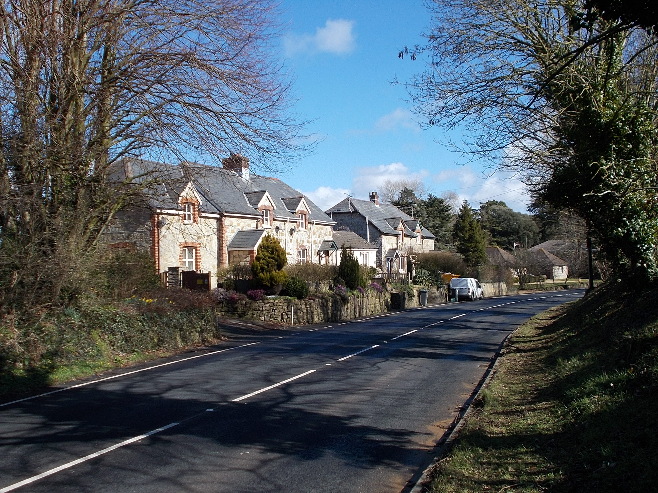 Main road, hamlet of Sandford, Isle of Wight, UK